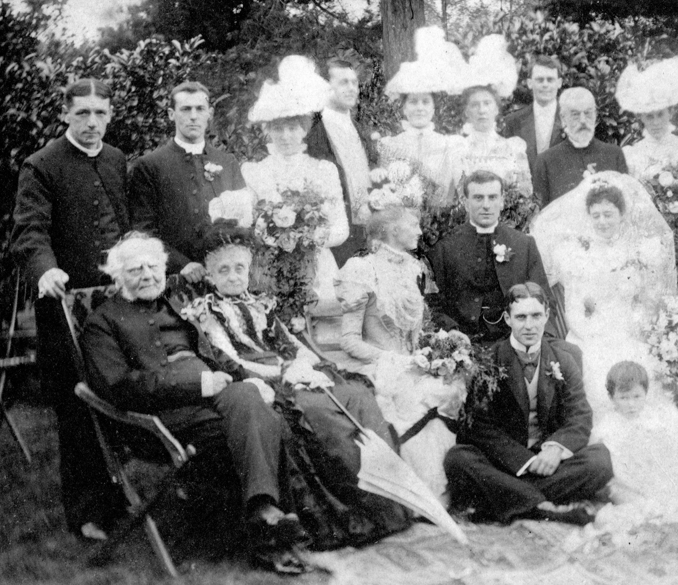 This photograph shows St Vincent Beechey (far left, seated) at the wedding of his granddaughter Mabel Champion Jones, daughter of Beechey's daughter Charlotte Champion Jones.